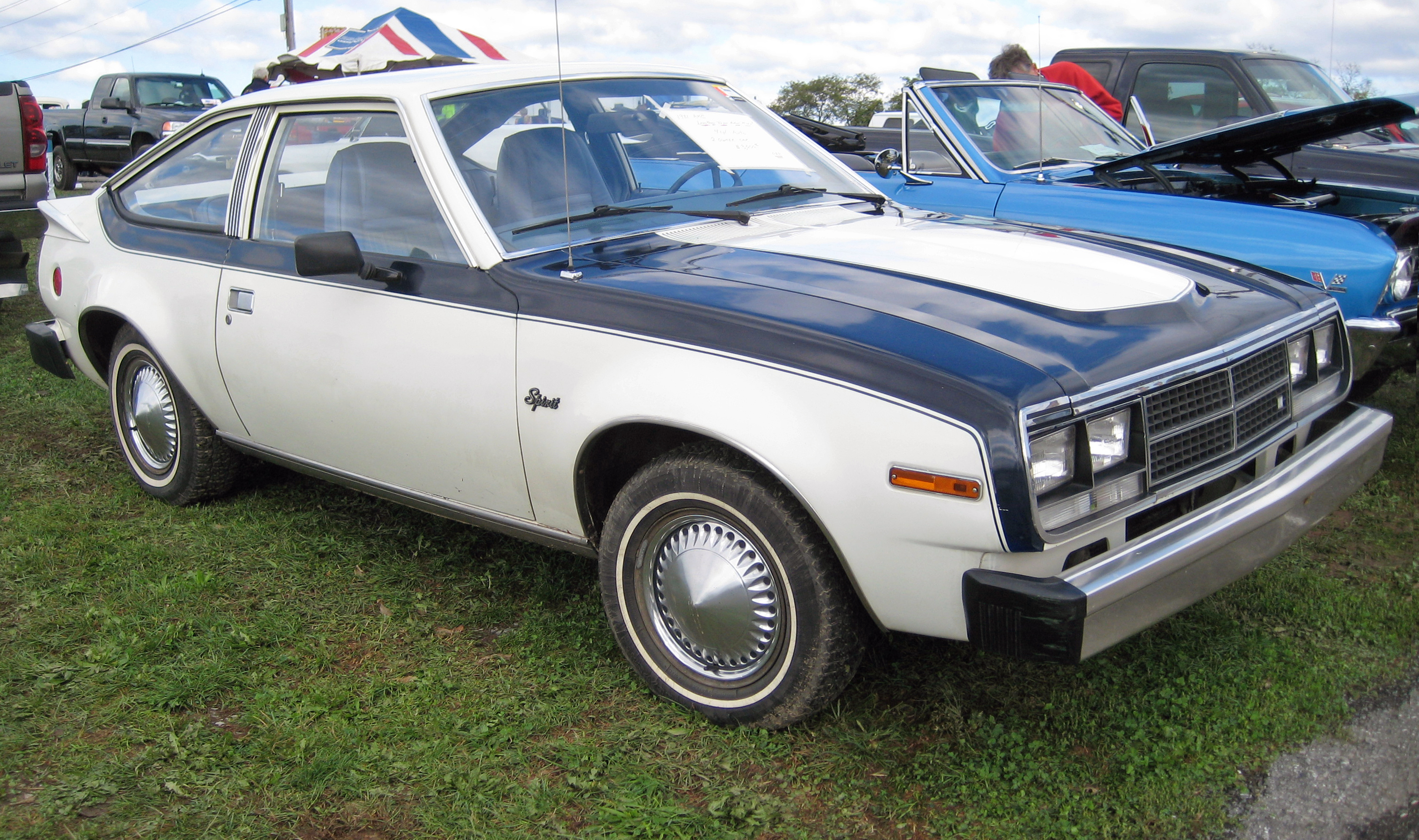 1981 AMC Spirit (four cylinder), seen at Fall Carlisle 2010.